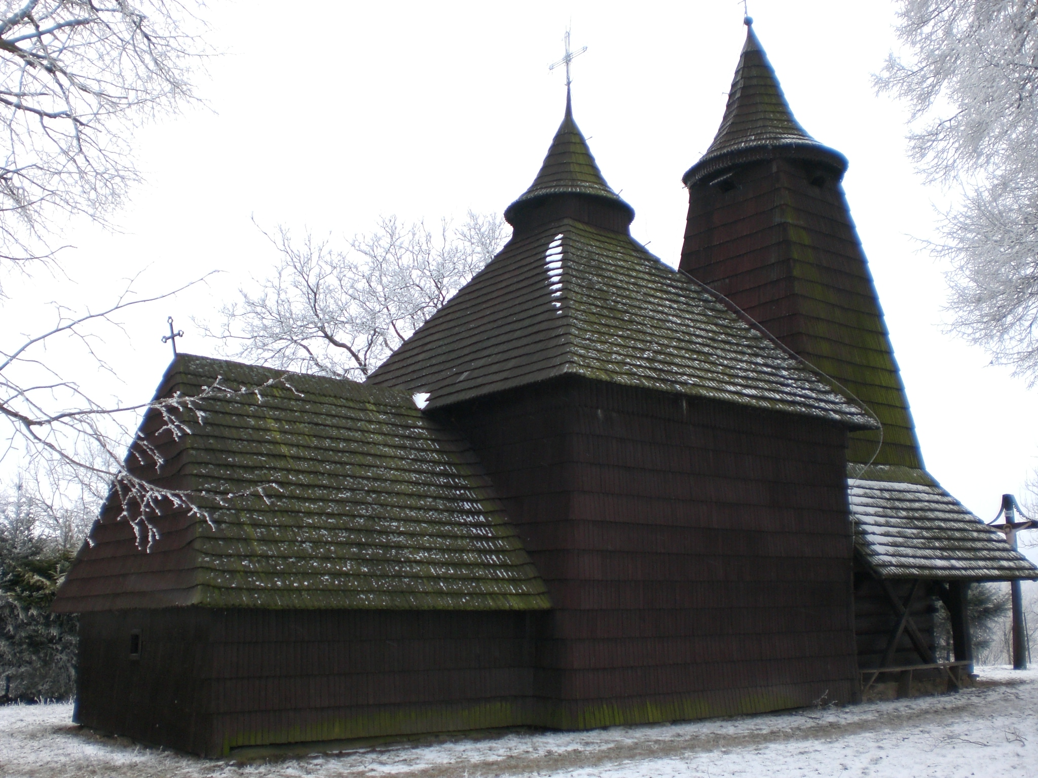 Wooden Greek Orthodox Church at Tročany, Bardejov